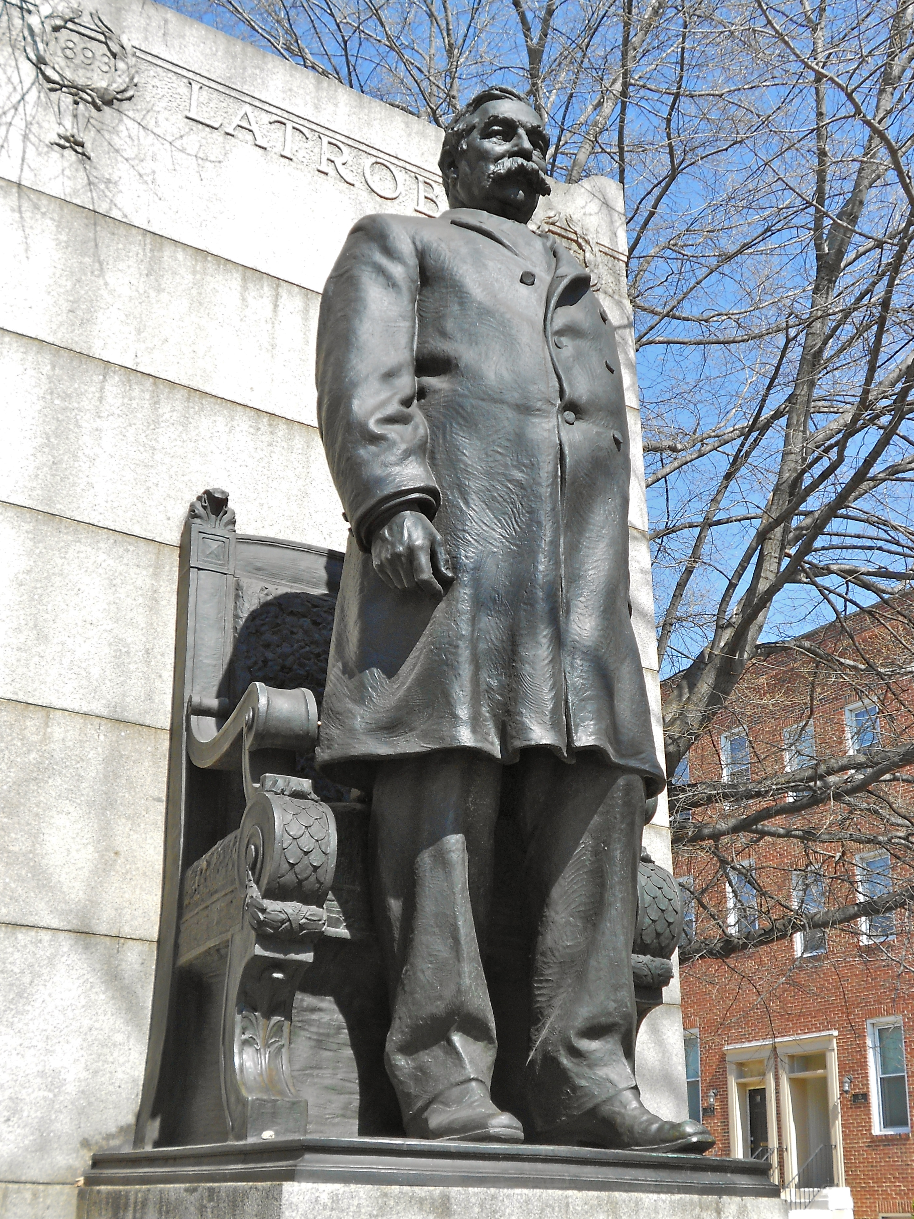 Statue of Latrobe in Baltimore, approx date 1890